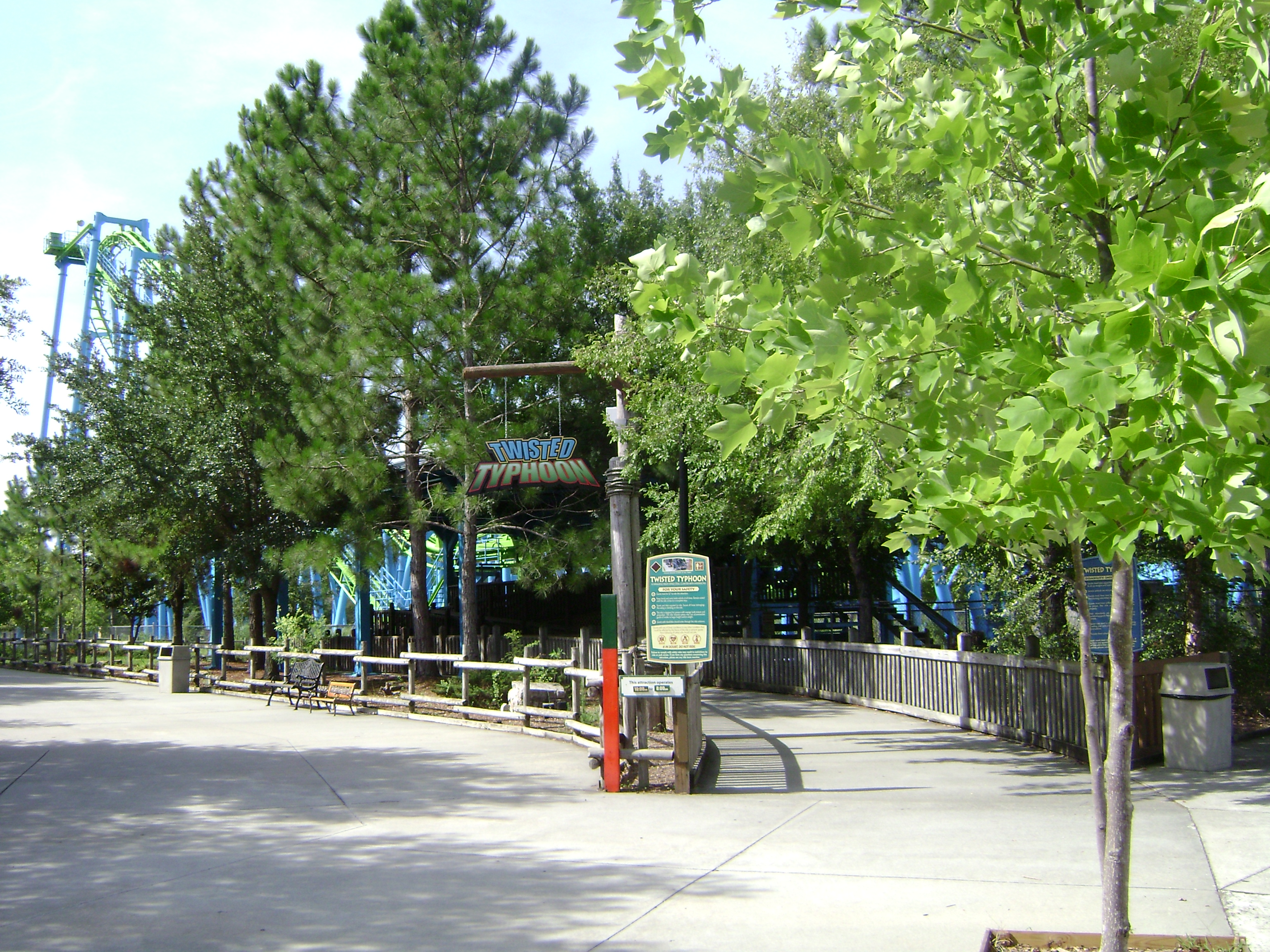 Twisted Typhoon at Wild Adventures (previously known as The Hangman)